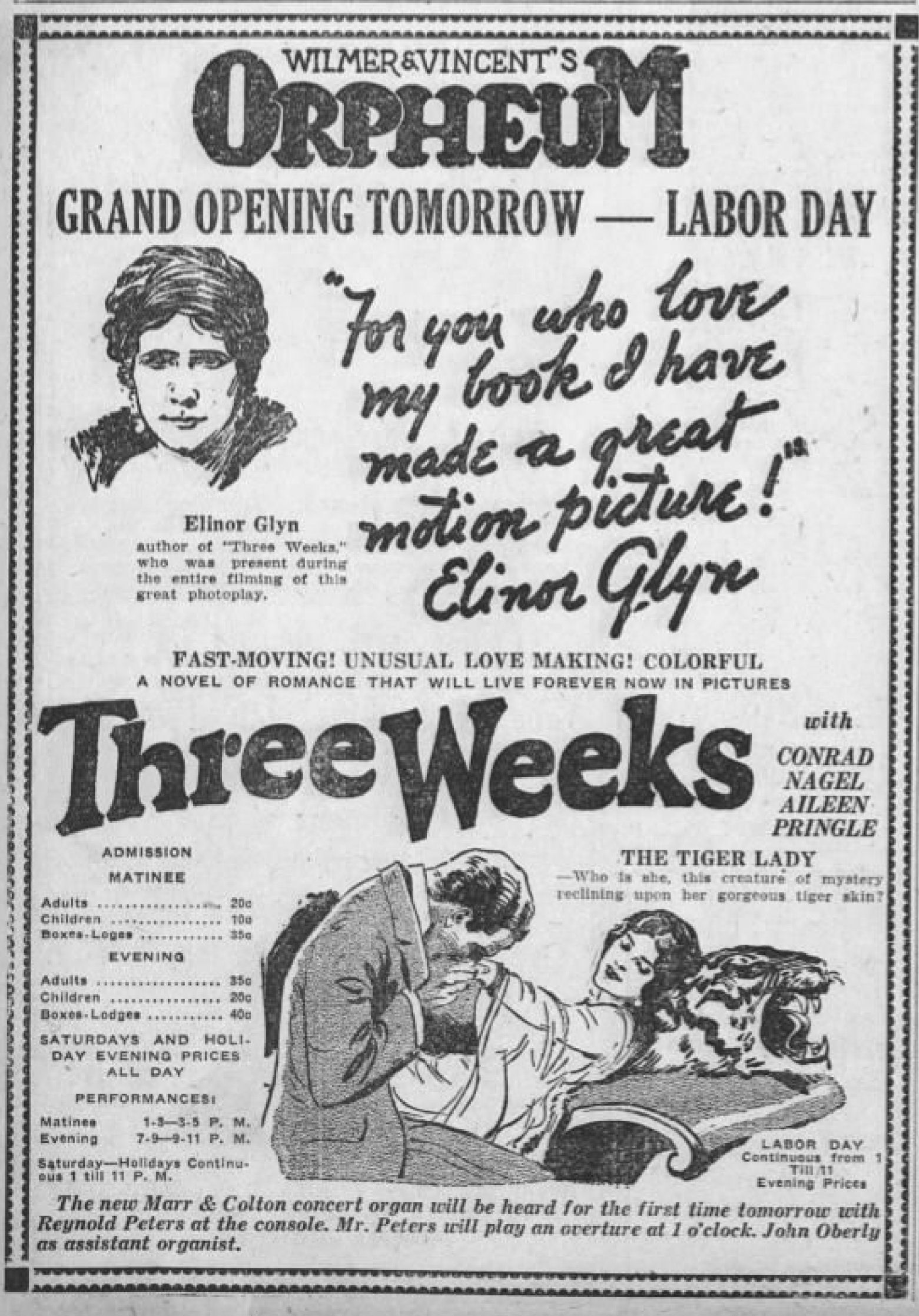 Orpheum Theater advertisement for the American drama film Three Weeks (1924) - 31 Aug. 1924 Morning Call, Allentown PA